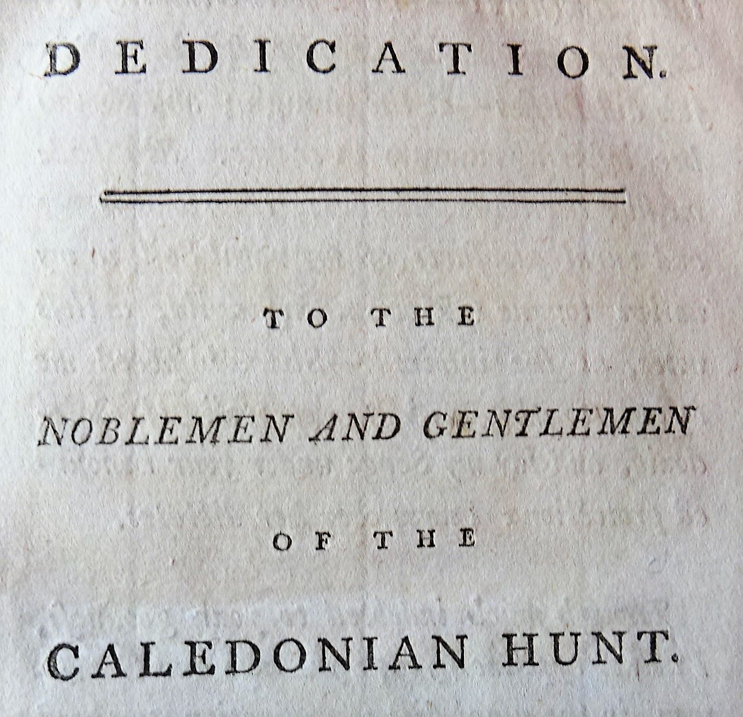 Dedication first page of Robert Burns 1787 Dedication of his poems from the first Edinburgh Edition to the Caledonian Hunt.